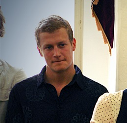 Image of Estonian actor Juss Haasma (born 1985)